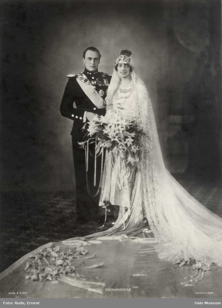 Olav V of Norway and princess Märtha of Sweden, wedding photo 1929